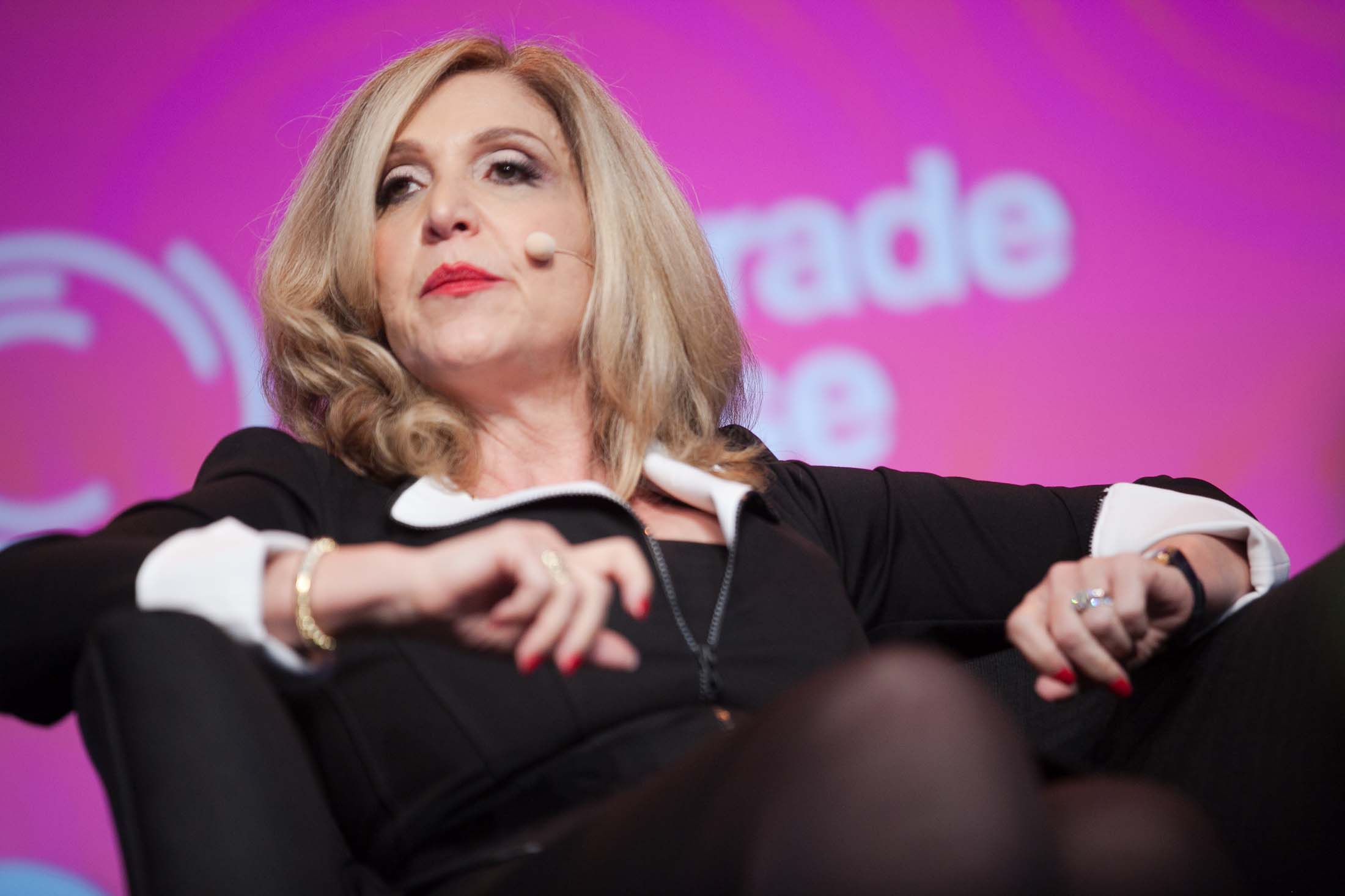 Edie Rodriguez, CEO of Crystal Cruises, in 2016